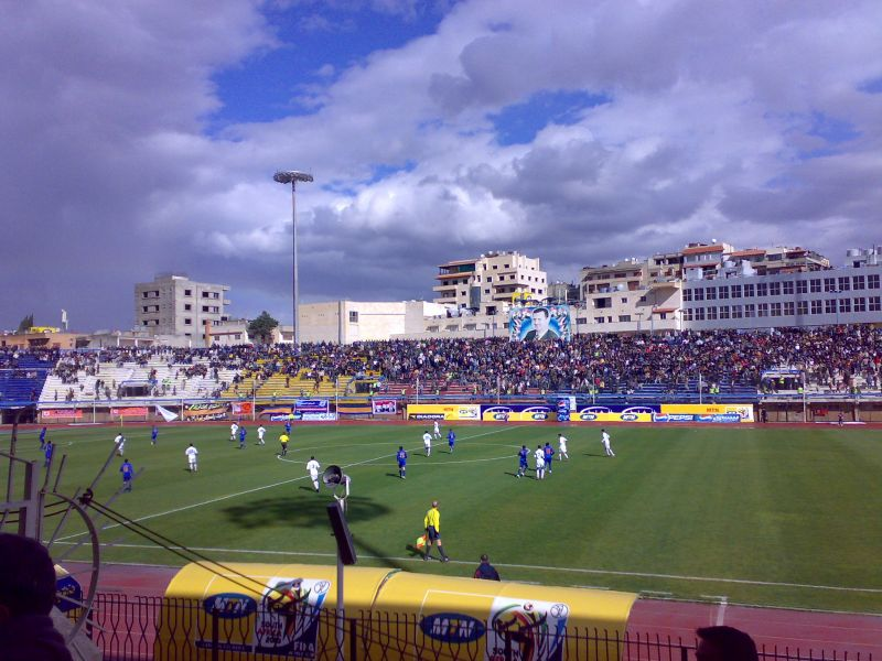 Khaled bin Walid Stadium in Hims, Syria. 02/2009